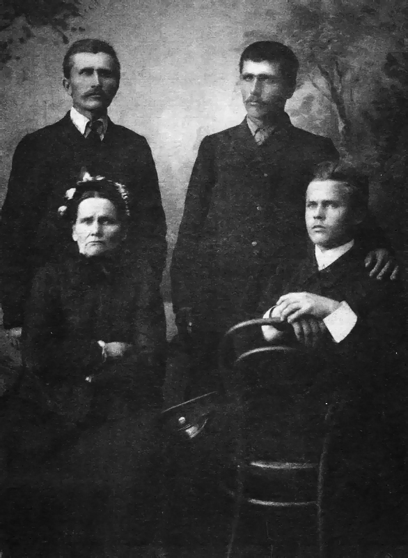 Belarusian Painter Jazep Drazdovich (sited on the right) with his mother and elder brothers.